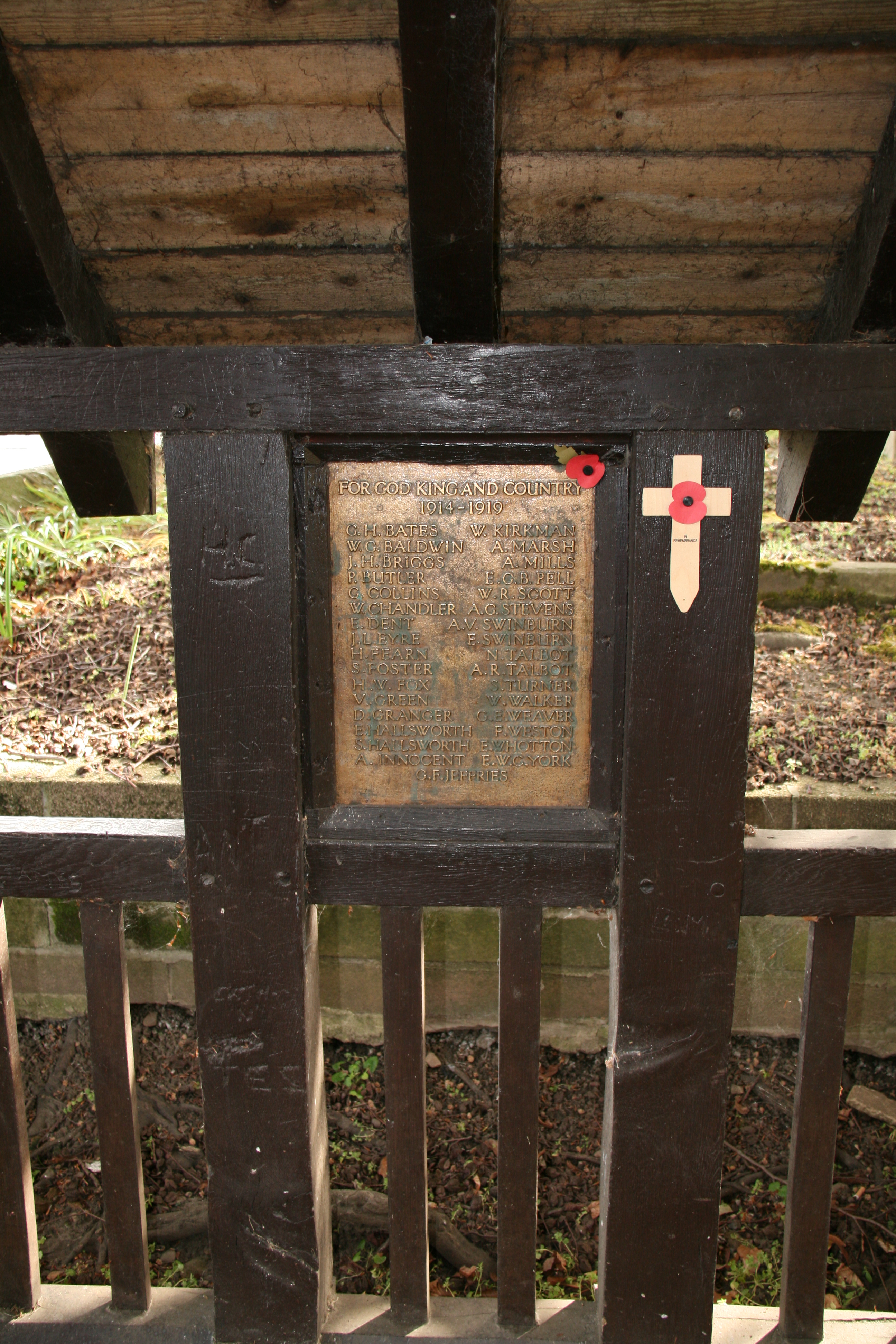 Great War Memorial in the lych gate of St Mary the Virgin parish churchyard, Boulton, Derby